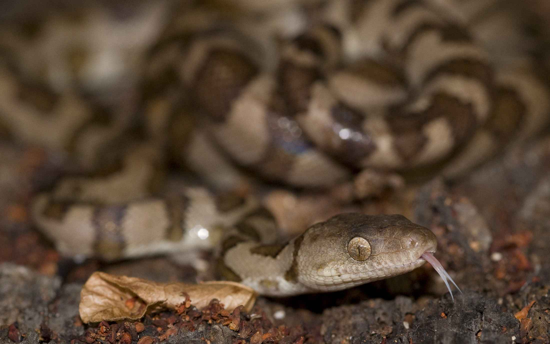 Image title: Mona island boa snake epicrates monensis monensis Image from Public domain images website